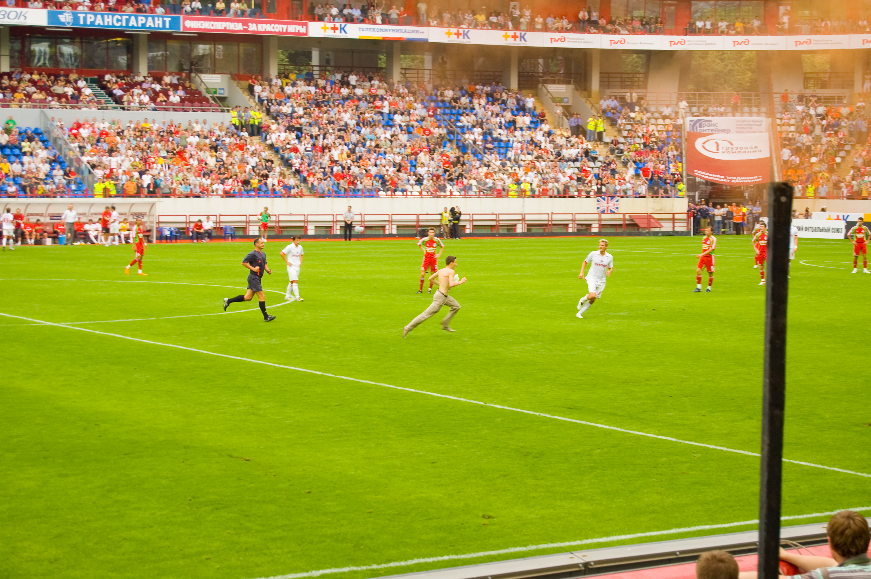 Midway through the second half, a Spartak fan entered the pitch, ran toward the Lokomotiv stands, gave them the finger, and then ran back. In this picture, the rogue fan has just taken off his shirt, and is about the be efficiently tackled by Kovac, before being carted off. Update: Apparently, Kovac received a yellow card for tackling the guy! I saw him get booked, but never imagined it was for taking down the fan.